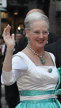 Wedding of Victoria, Crown Princess of Sweden, and Daniel Westling; Arrival of members for the Gouvernment and Swedish and foreign guests of hounour to the Riksdag's Gala Performance at Konserthuset